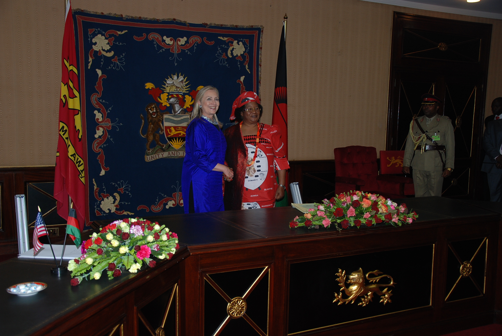 President Joyce Banda of Malawi and U.S. Secretary of State Hillary Rodham Clinton pose for a photograph prior to their bilateral meeting in Lilongwe, Malawi, August 5, 2012. [State Department photo/ Public Domain]